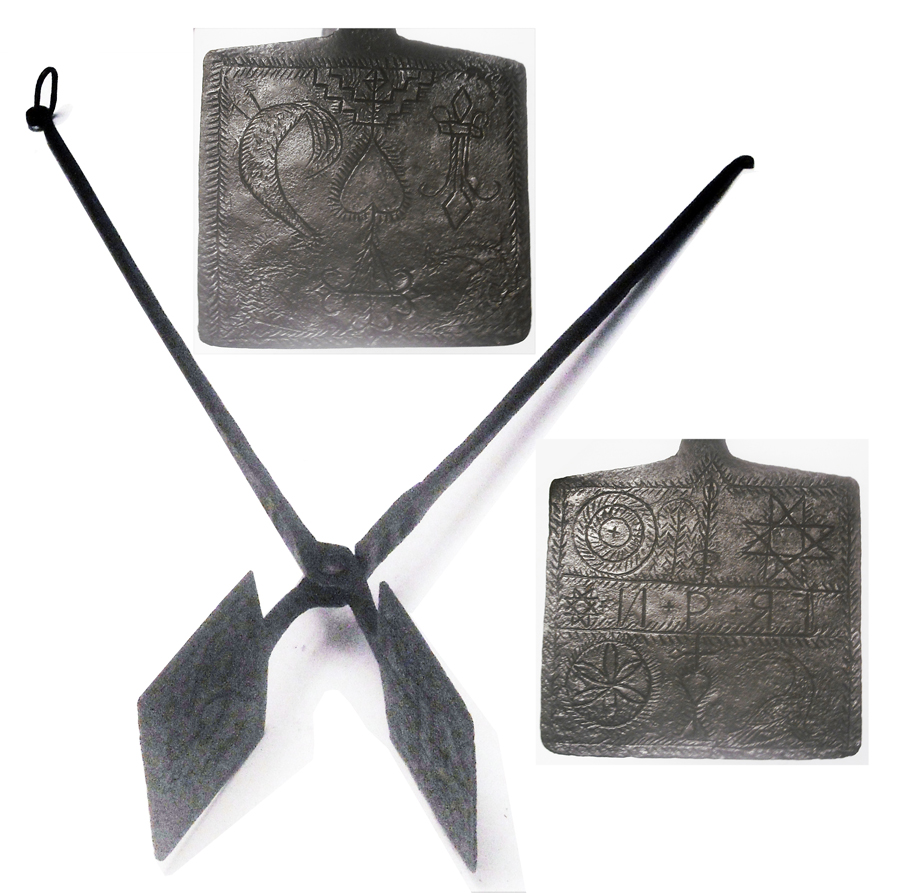 Waffle iron from the Gourmet Museum and Library of Hermalle-sous-Huy (Belgium)